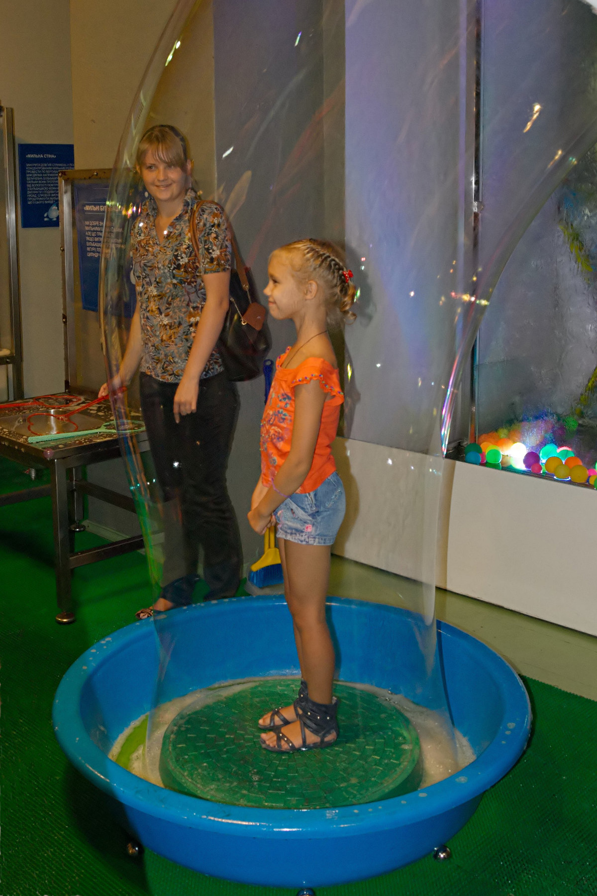 Water center in Kyiv. Baby in soap bubble.